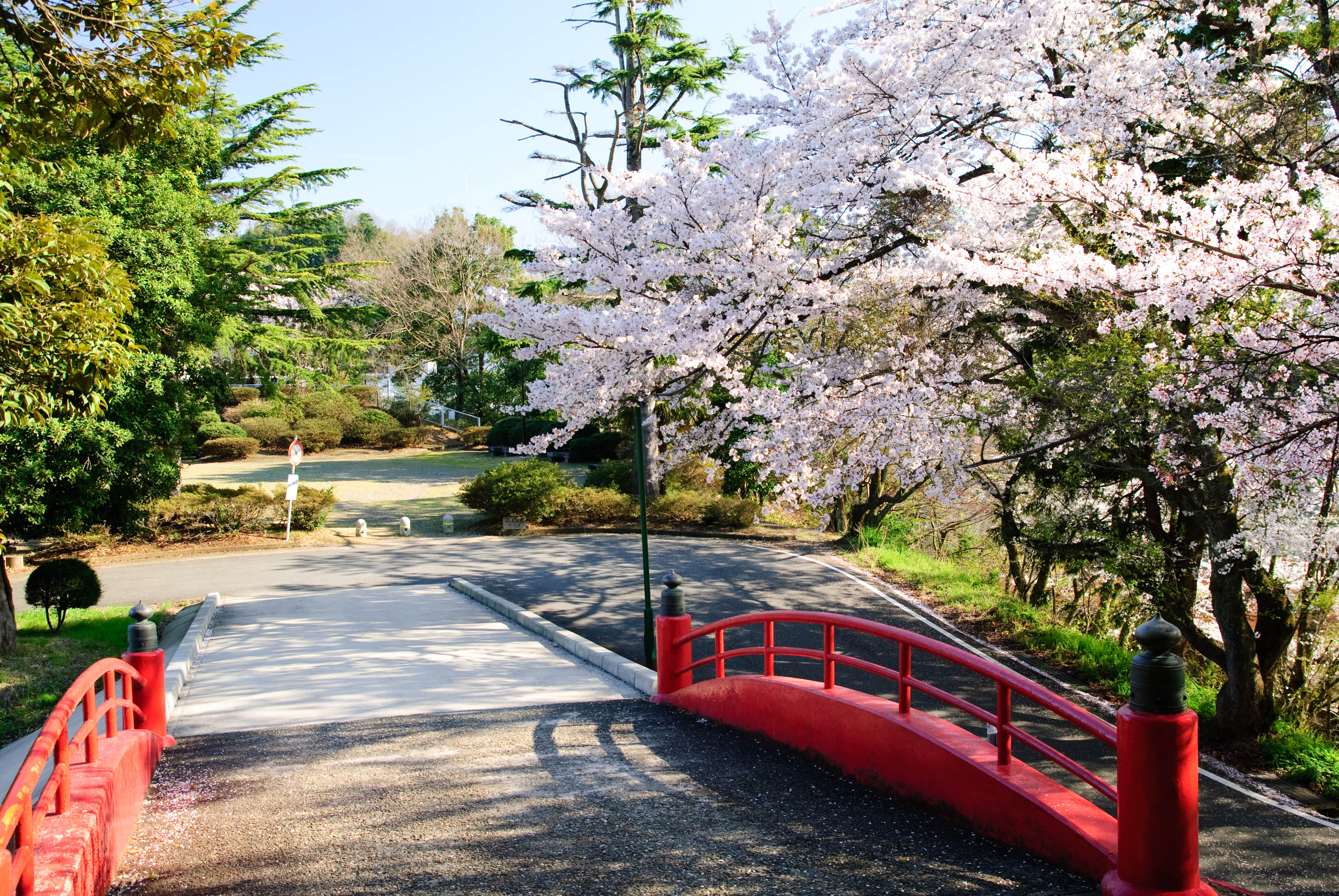 Sanno Park in Toyooka, Hyogo Prefecture, Japan.